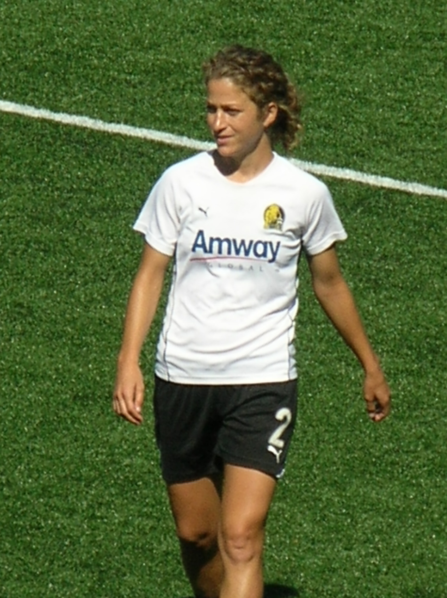 FC Gold Pride midfielder Kim Yokers warming up before the 2010 WPS Championship at Pioneer Stadium in Hayward against the Philadelphia Independence. The Gold Pride won 4-0.